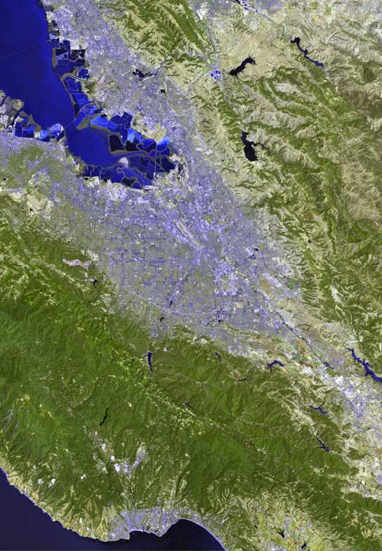 The raw satellite imagery shown in these images was obtain from NASA and/or the US Geological Survey. Post-processing and production by